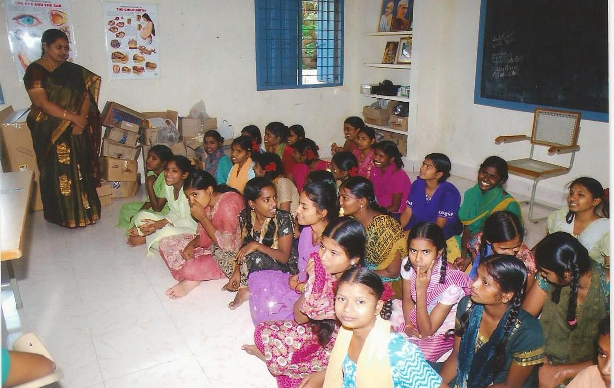 krishna prasanthi